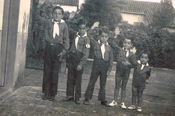 Plinianos de uma familia integralista em Poços de Caldas (MG) fazendo a saudação Anauê com o braço estendido pra cima